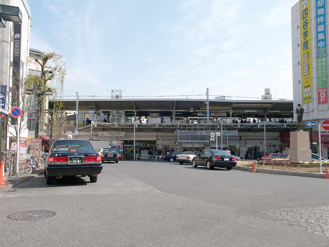 main entrance of Tokyu Jiyugaoka Station （自由が丘駅正面口）